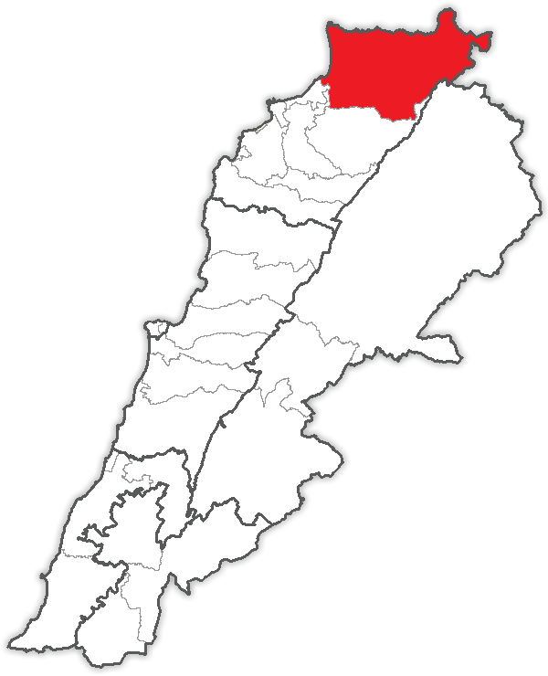 electoral district (2017 Election Law)